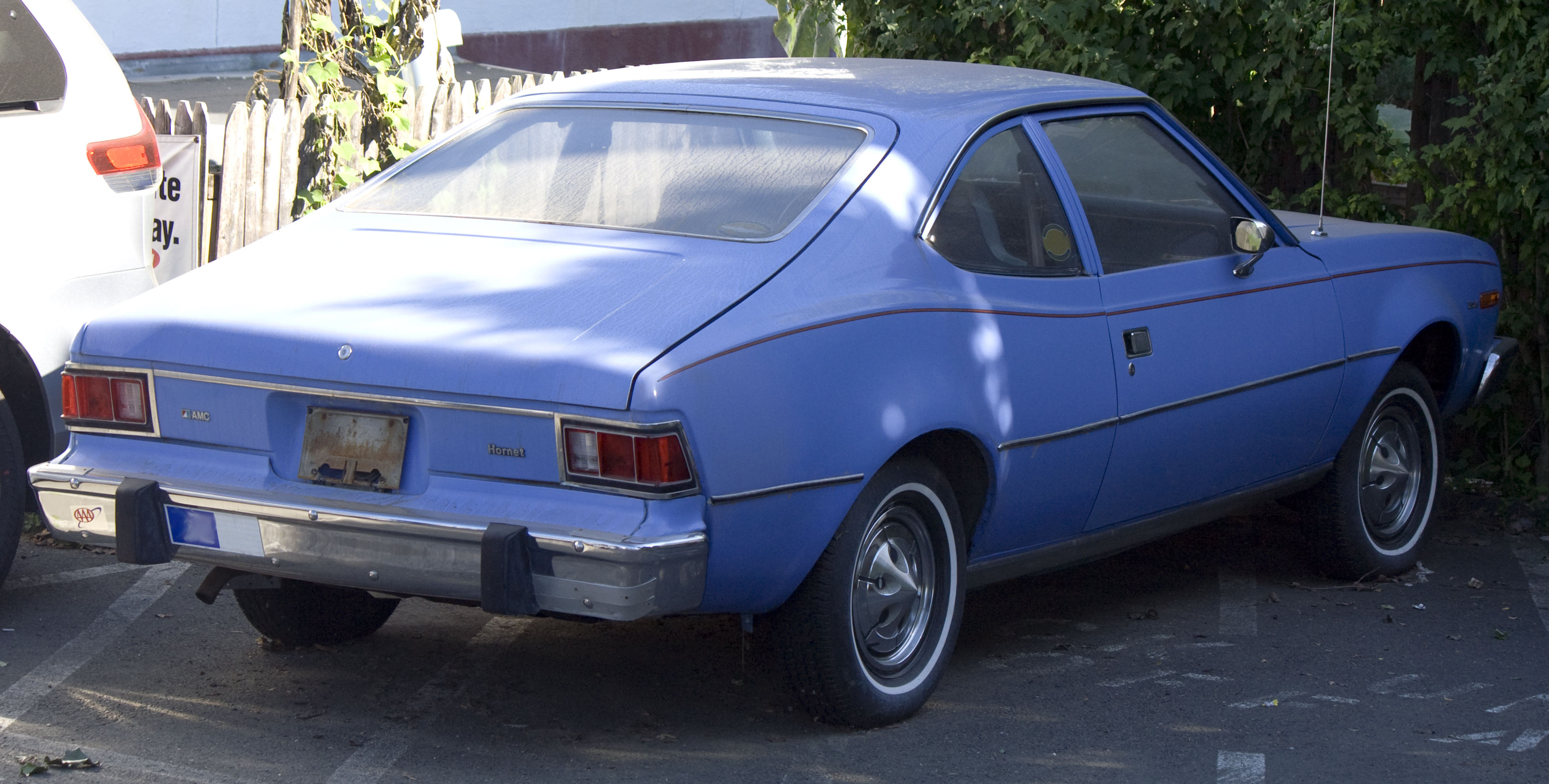 1975 AMC Hornet 2-door Hatchback, equipped with the 232 1-barrel inline six. Hasn't moved in a while, it seems.